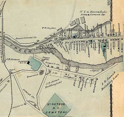 Scanned page of an atlas of Ulster County, New York prepared by F. W. Beers and first published in 1875. Crop of Rosendale Village section.